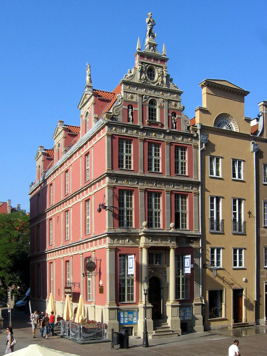 Gdansk, Poland, House of the Schumann Family, ul. Długa 45.